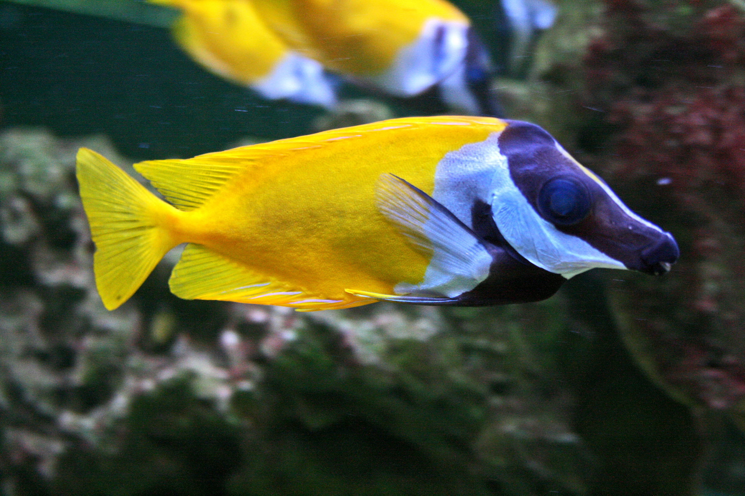 Fish Foxface rabbitfish Siganus vulpinus in Prague sea aquarium, Czech Republic